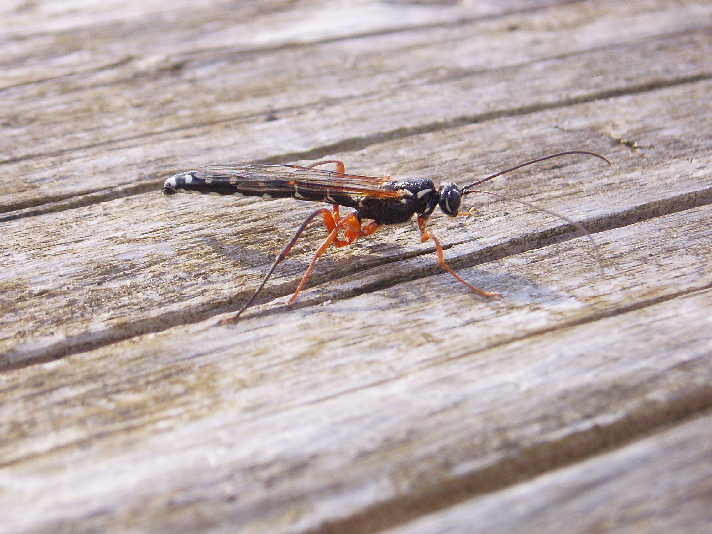 Rhyssa persuasoria is a large Ichneumonid that is an ectoparasite on larvae of the Greater Horntail (Urocerus gigas).